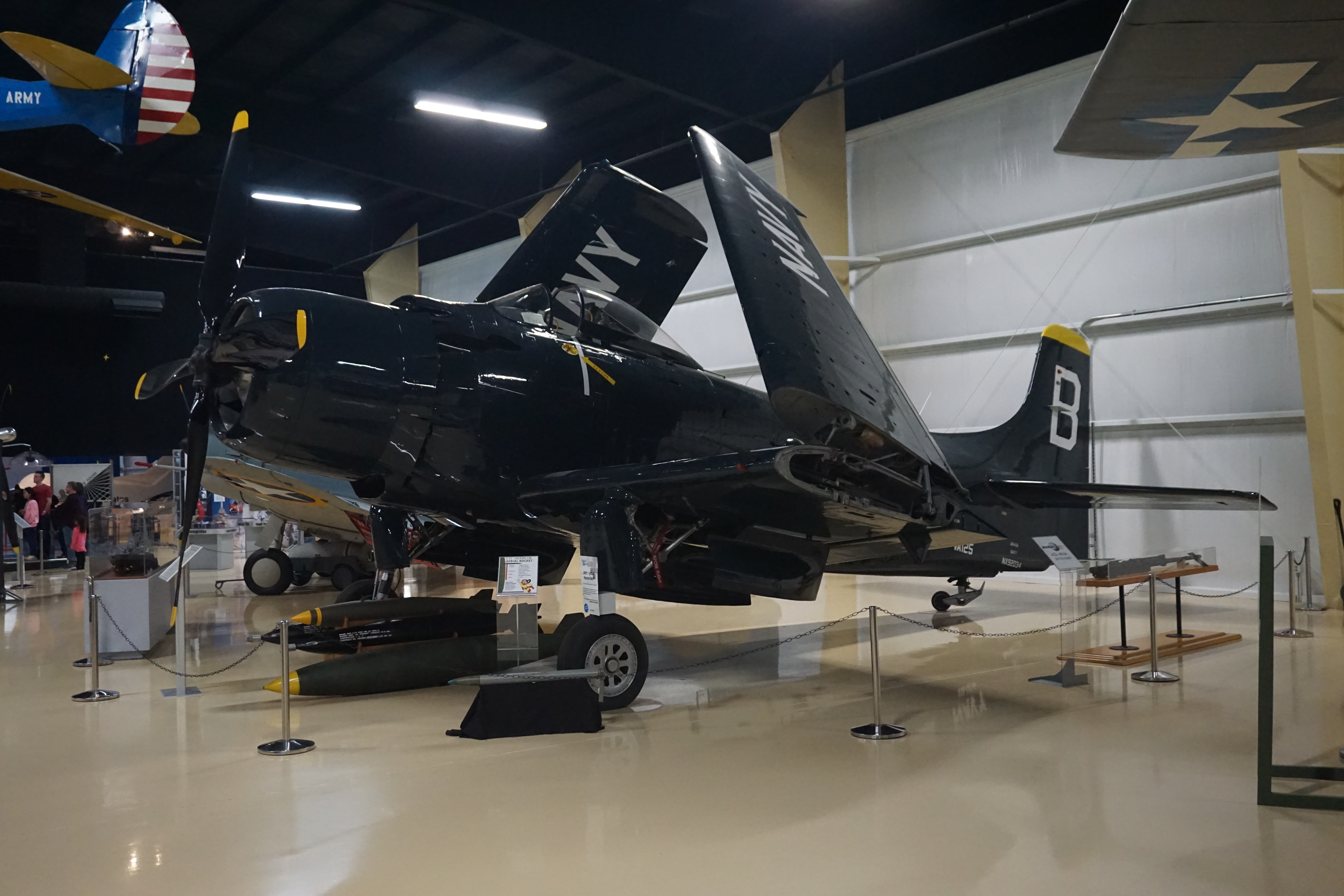 A Douglas AD-4NA Skyraider on display at the Air Zoo at Kalamazoo/Battle Creek International Airport in Portage, Michigan (United States).